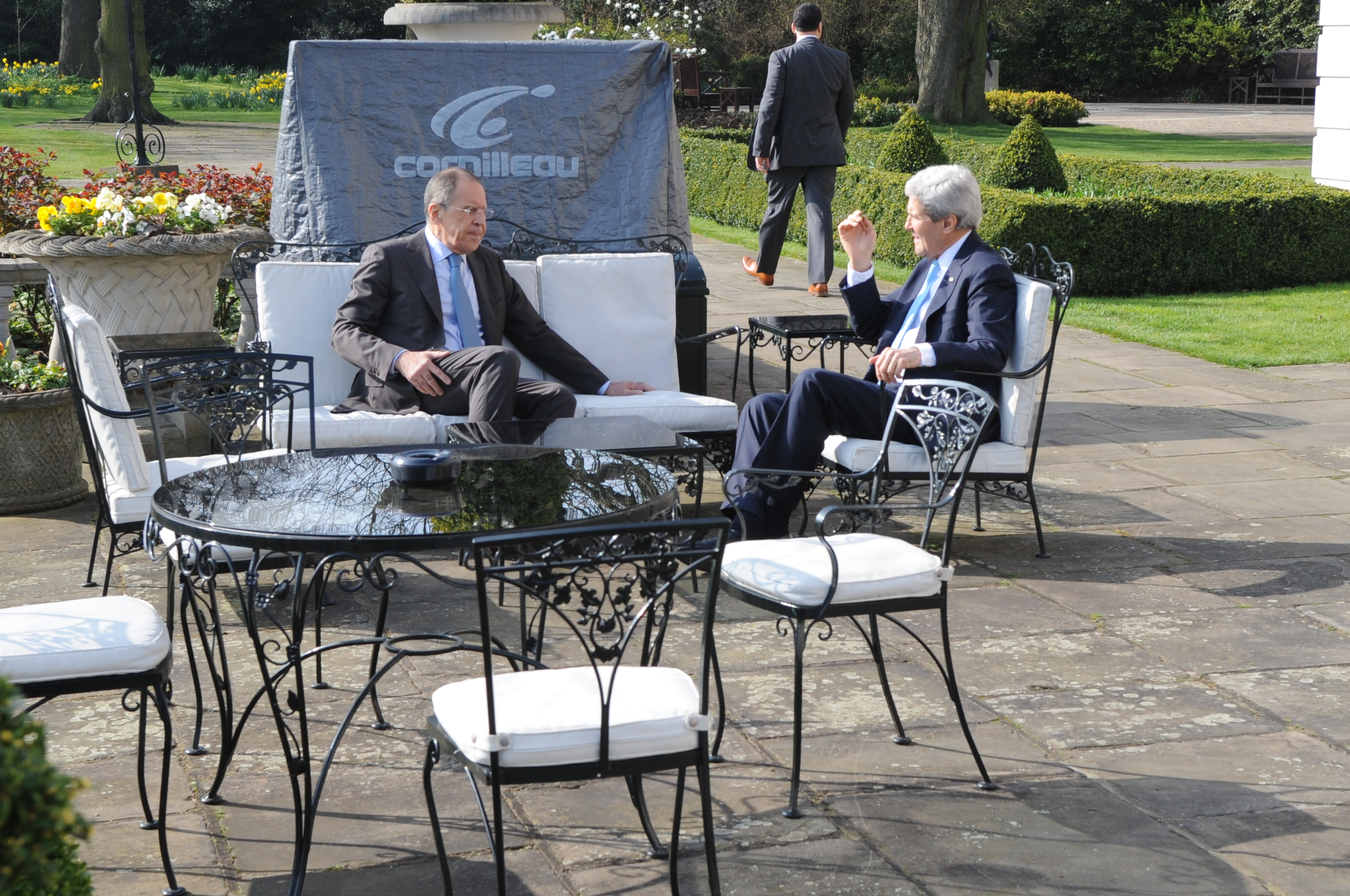 U.S. Secretary of State John Kerry and Russian Foreign Minister Sergey Lavrov hold a brief one-on-one conversation on the patio at Winfield House, the U.S. Ambassador's Residence in London, United Kingdom, before the start of a formal bilateral discussion focused on Russian intervention in Crimea on March 14, 2014. [State Department photo/ Public Domain]